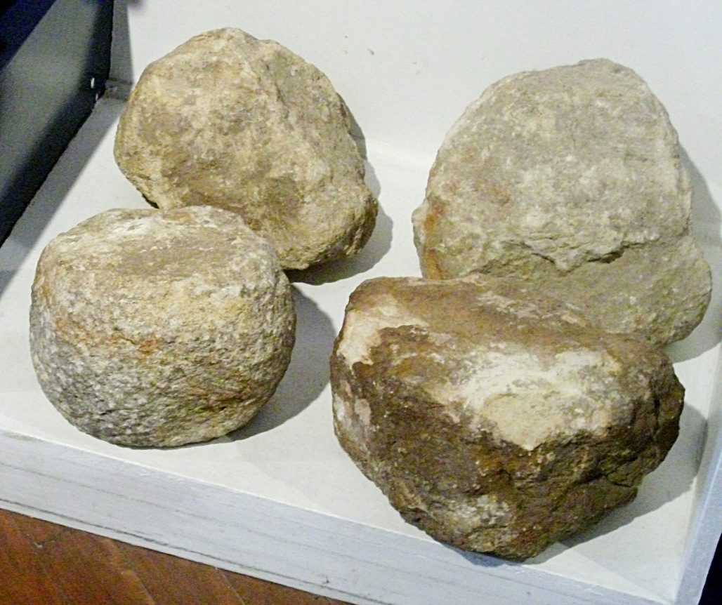 4 pieces of mangonel shot dug from grounds of Bedford Castle. They were fired in the siege of the castle in 1224.